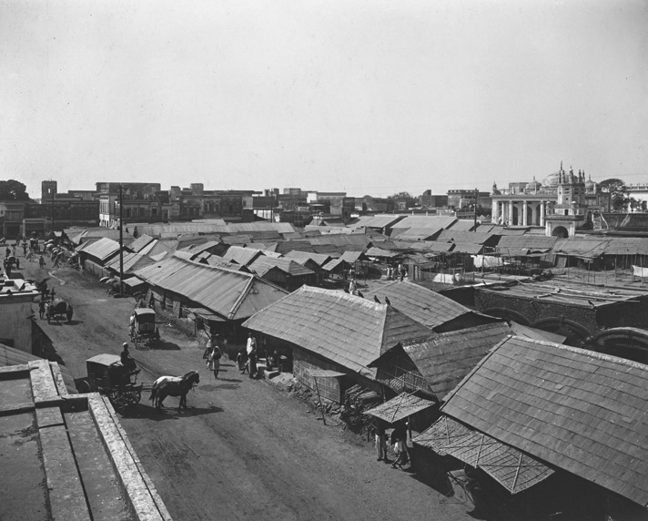 Photograph taken by Fritz Kapp in 1904 in Dacca (now Dhaka), part of an album of 30 prints from the Curzon Collection. This is a view of the Chowk or the market place in Dhaka, looking across the shop roofs. The Chowk Bazaar is at the seething heart of the old city of Dhaka, its narrow, twisted roads are lined with old buildings, the ground floors of which house shops selling a multitude of things. All manner of vehicles, predominantly rickshaws, crowd the streets.